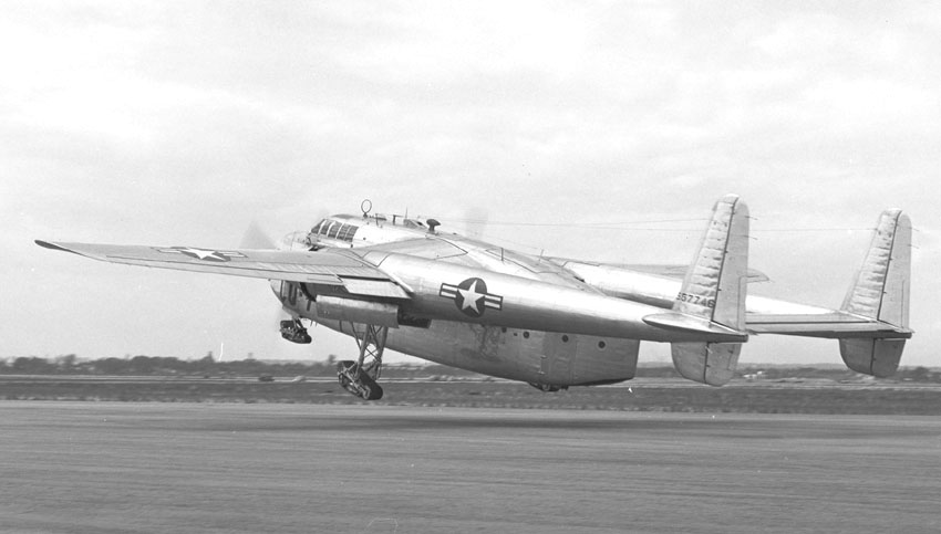 C-82A (45-57746) demonstrating the track gear for members of the Aviation Writers Association at NYC on May 15, 1948.